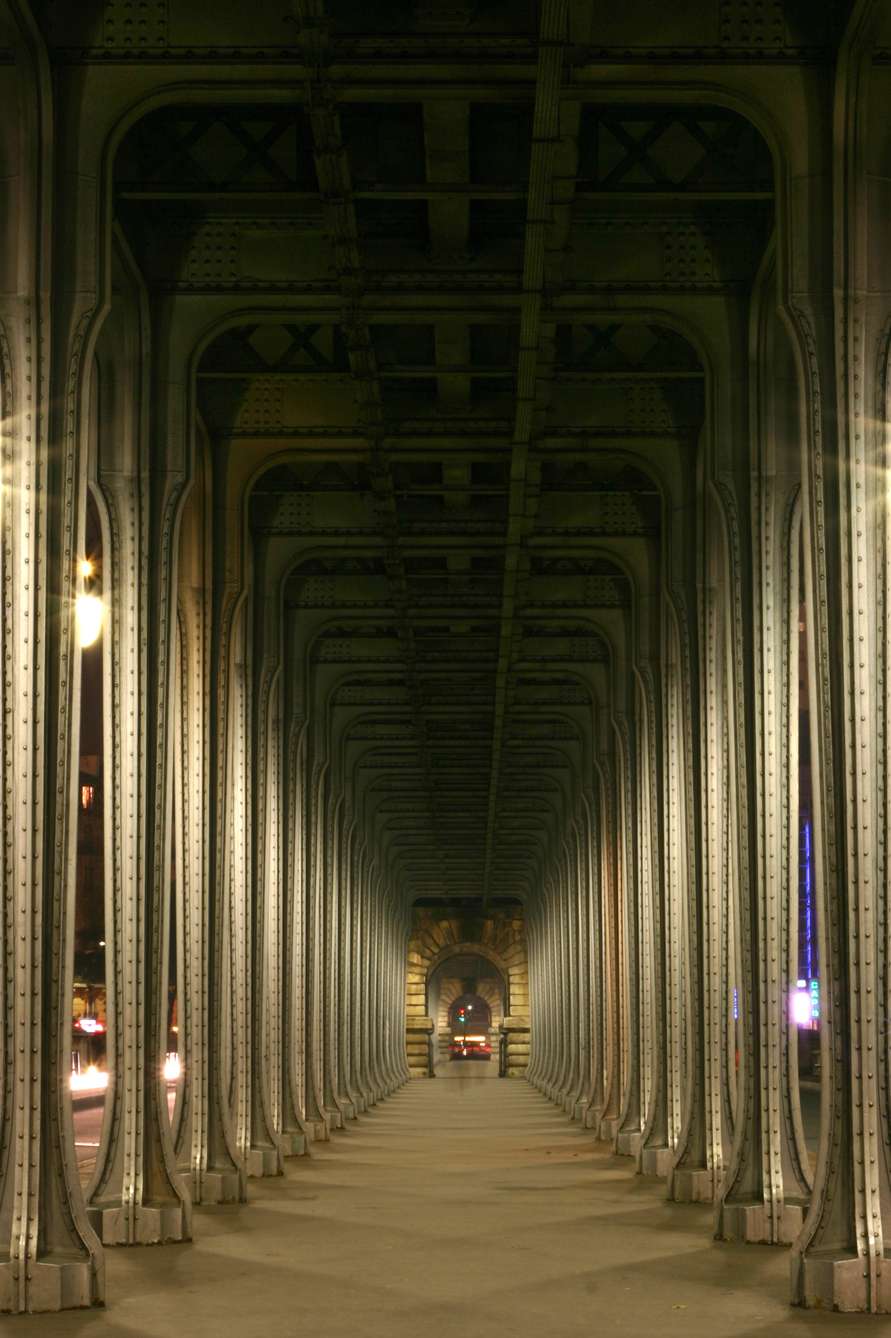 Passy Viaduct, Paris, France. 19th November 2005